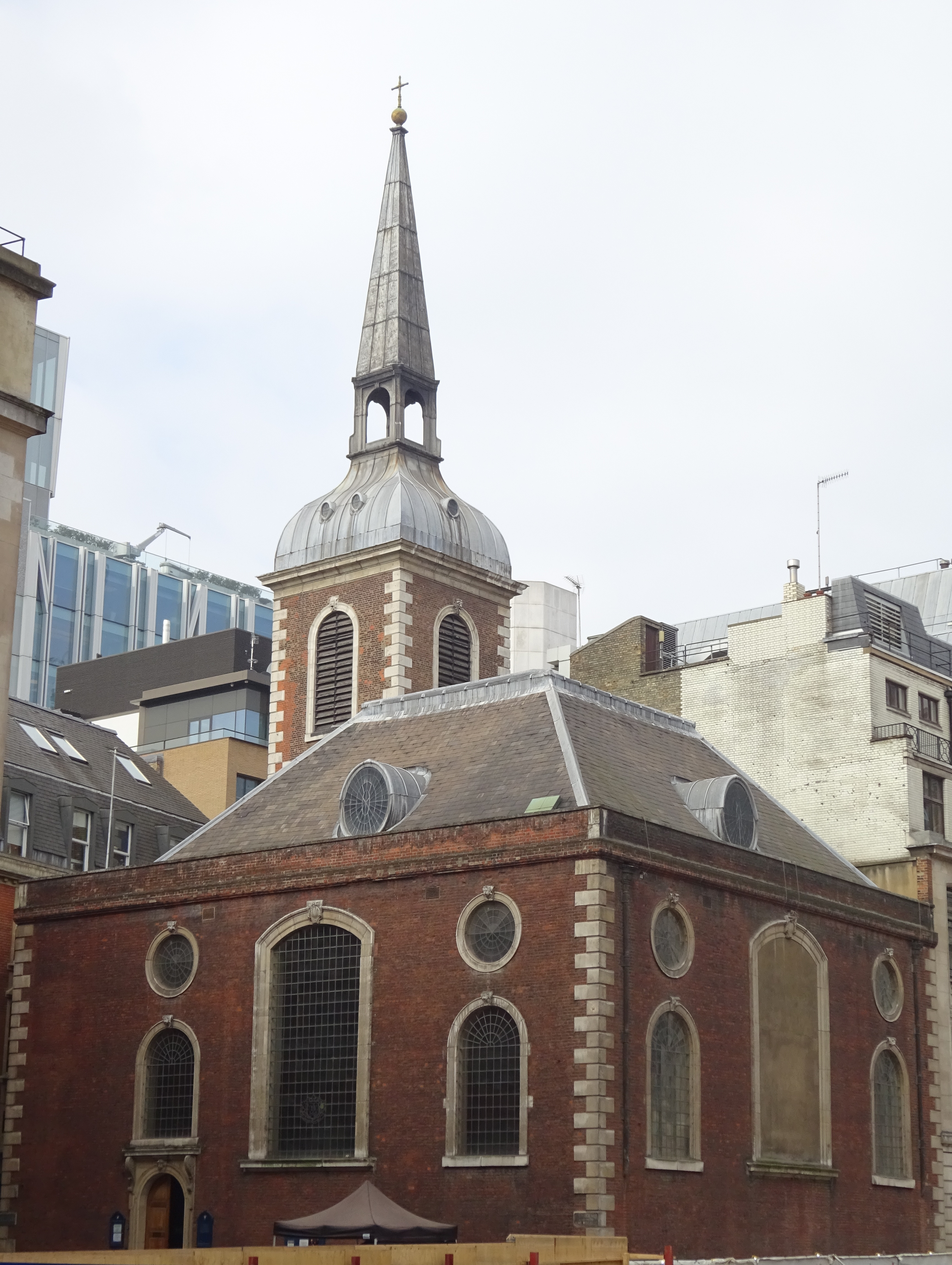 St Mary Abchurch, City of London, looking across the empty site of 135 Cannon Street. Photograph taken on 16 March 2017.